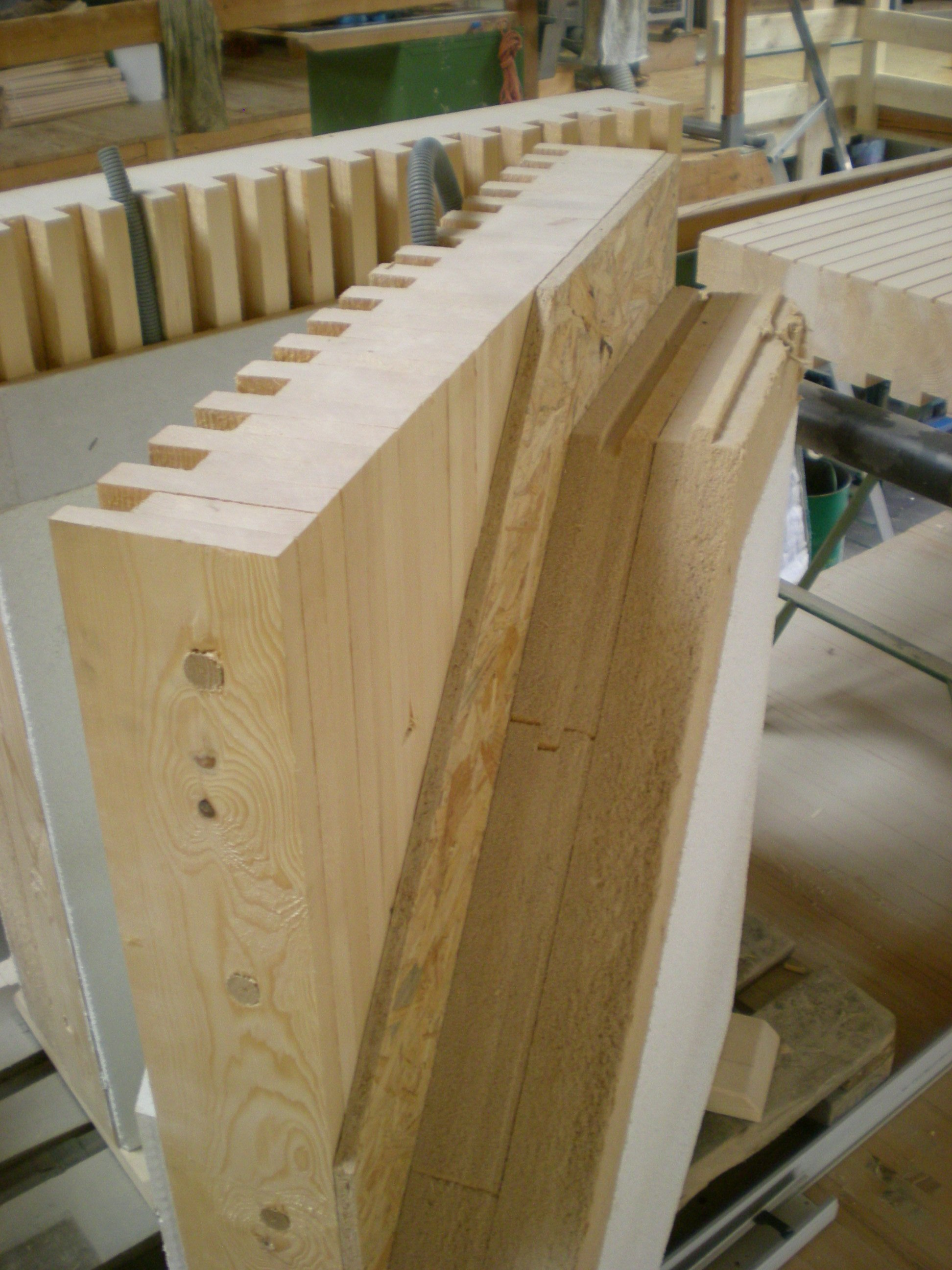 Example of a Brettstapel wall comprising (from left); Brettstapel; Sheathing Board; Wood Fibre Insulation; External Render